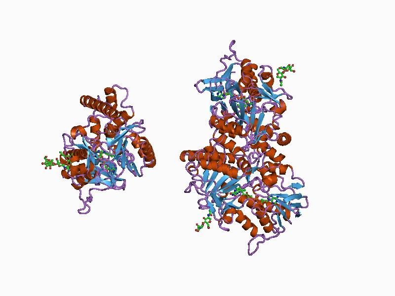 Cartoon representation of the molecular structure of protein registered with 1b37 code.